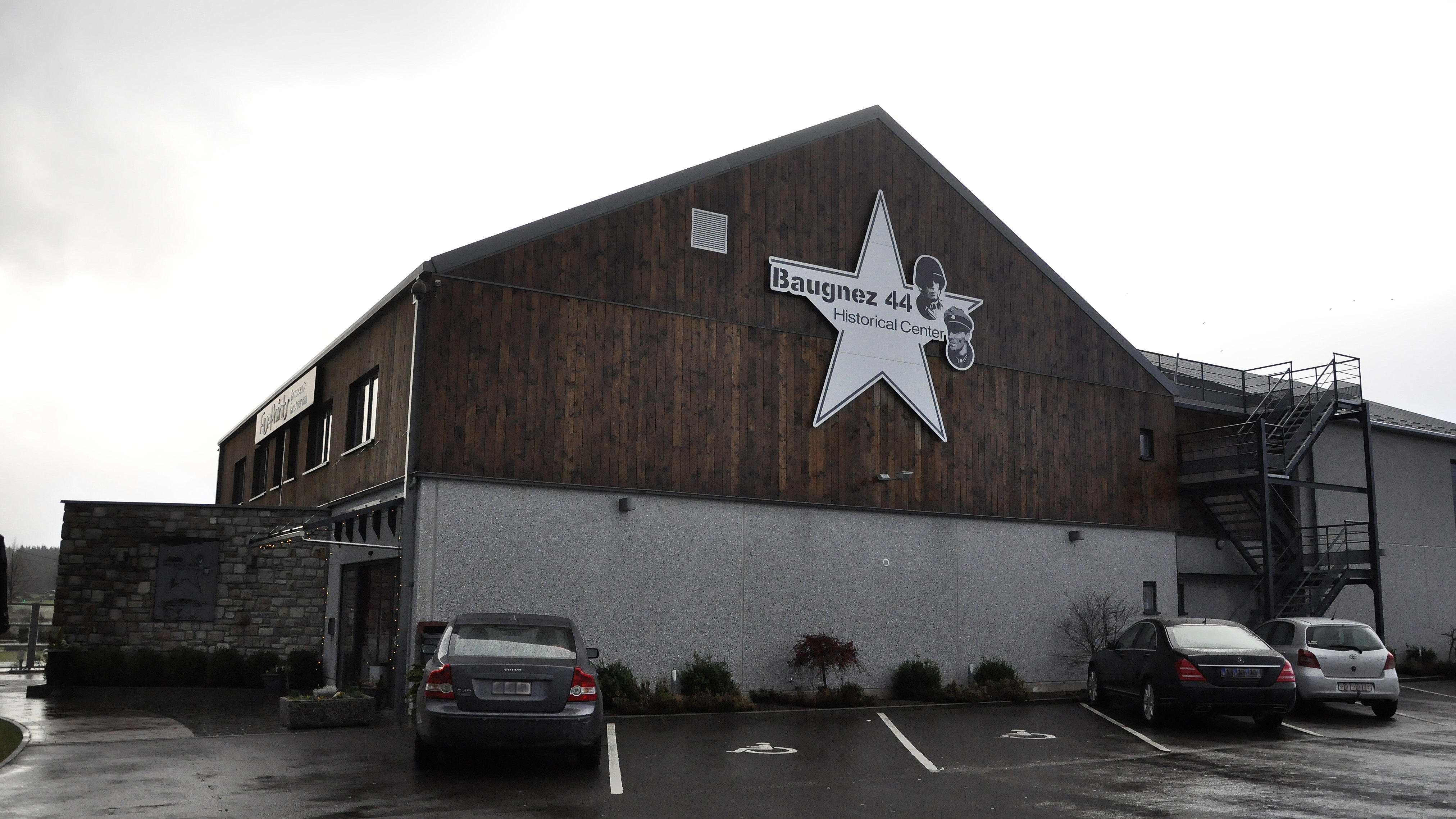 Baugnez 44 Historical Center in Baugnez, Malmedy